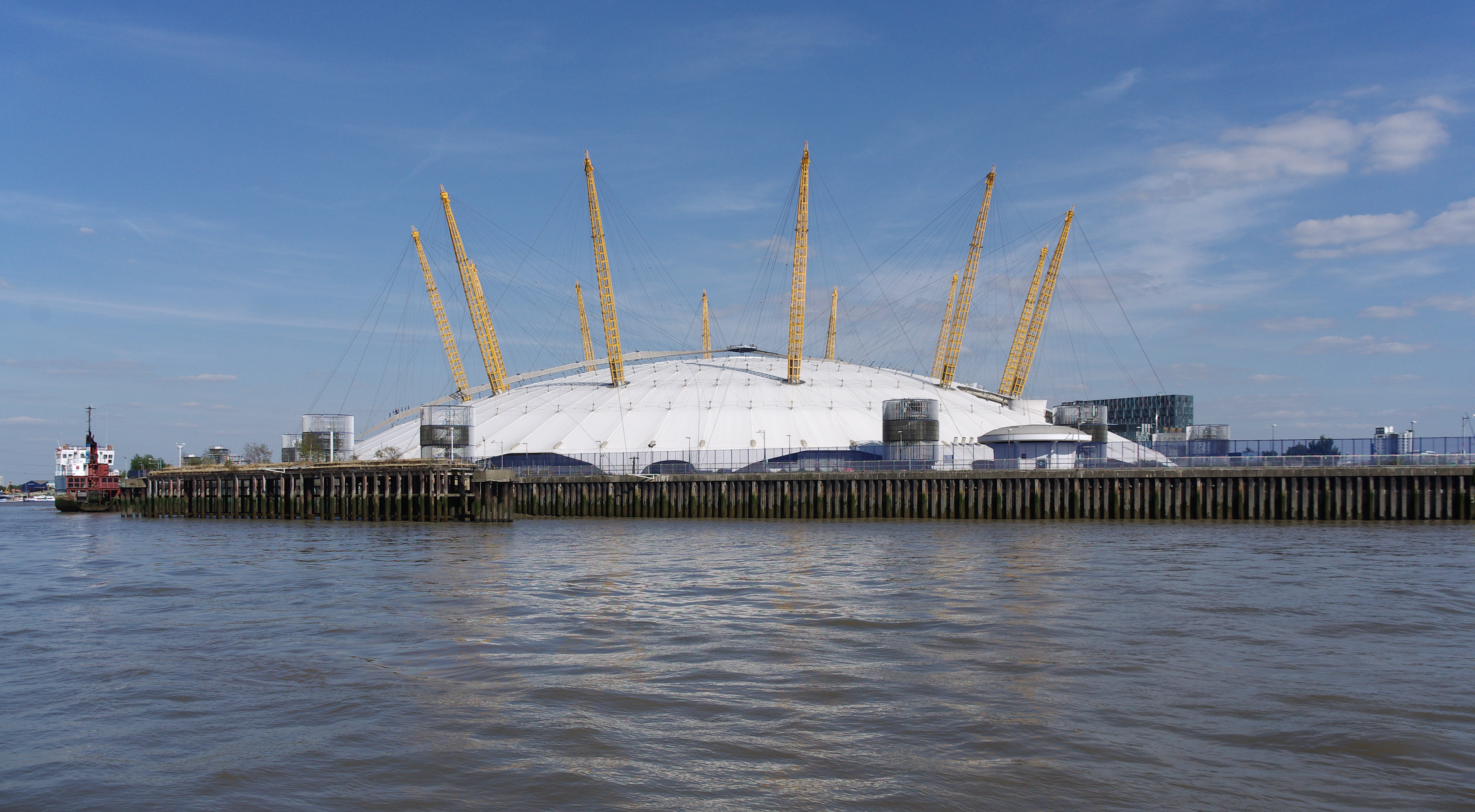 The Millennium Dome seen from the River Thames.